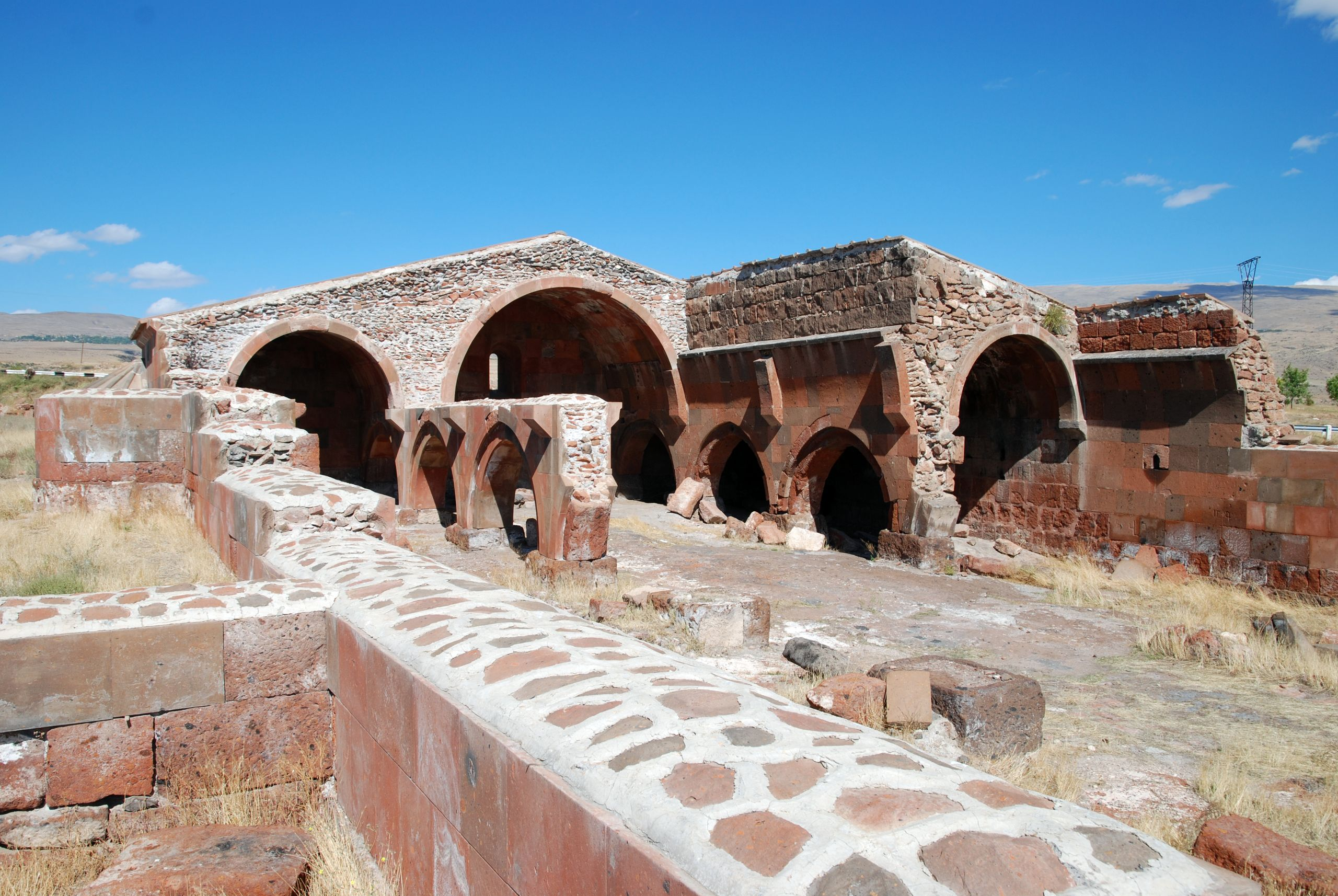 Aruch, caravanserai